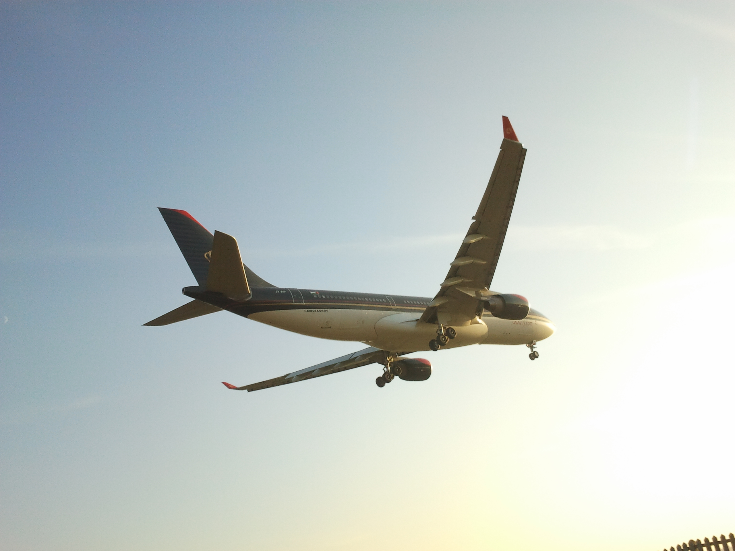 Royal Jordanian Airbus A330-200 landing at Montréal-Trudeau Airport